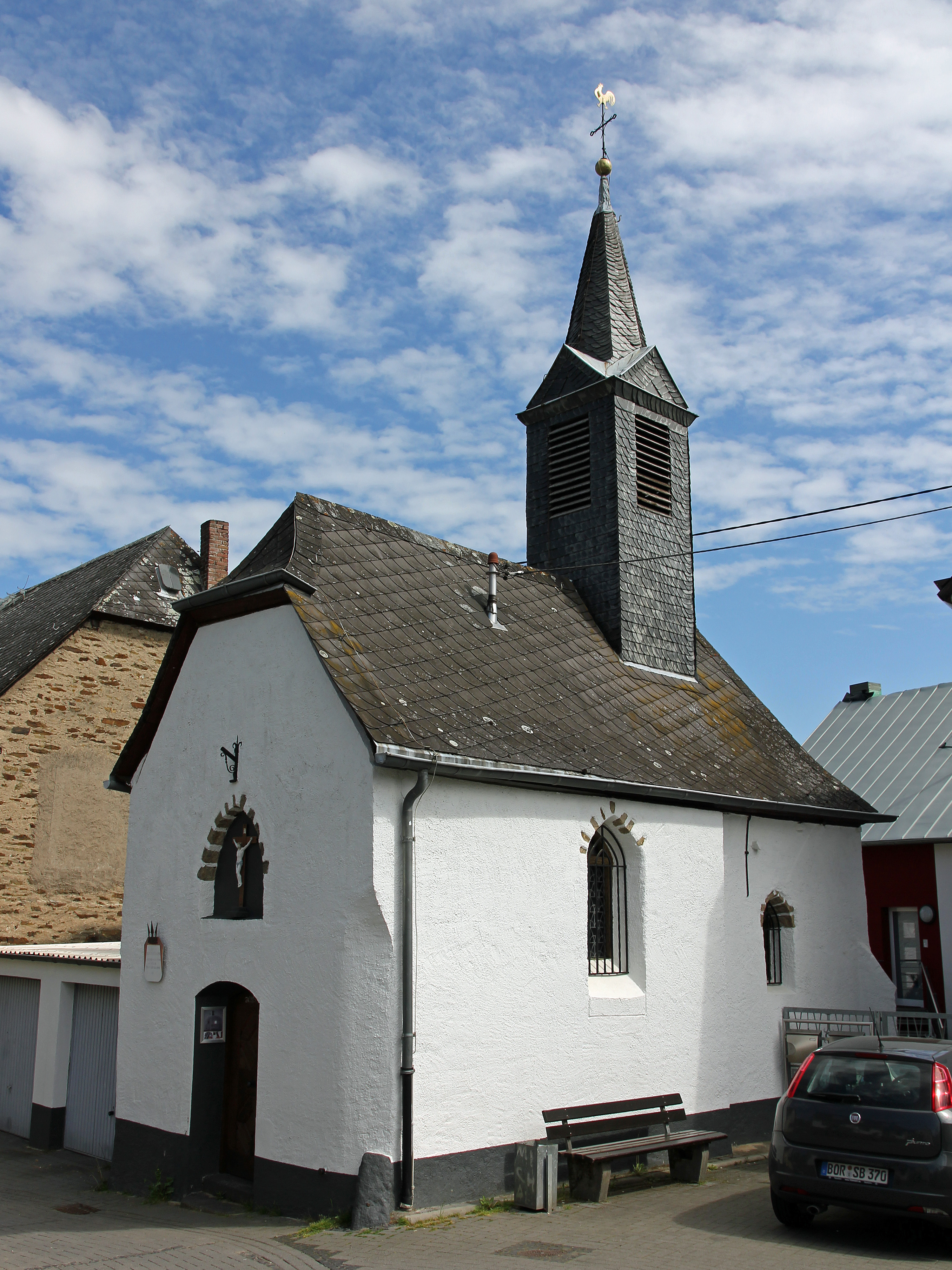 St.-Antonius-Eremit chapel in Koblenz